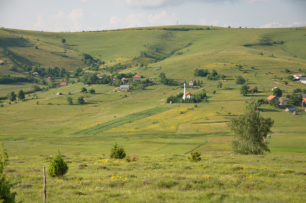 Panoramic scenes of the Pester plateau, karst region in southwestern Serbia. It situated in the area of Raska. The most part of Pešter is located in the municipality of Sjenica. The relief of Pester Plateau is characterized by low, hilly terrain, streams of clean water and vast meadows that are used for grazing sheep and cattle. Pester field is a region of outstanding natural value. A part of Pester is the Uvac River Canyon. In the canyon of the river Uvac nests large colony of eagles, vultures - Gyps fulvus.